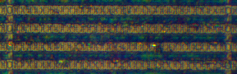 Integrated circuit die photo of a STM32F103VGT6 ARM Cortex-M3 MCU (microcontroller) with 1 Mbyte Flash, 72 MHz CPU, motor control, USB and CAN. Die size of 5339x5188 µm. View is from an Optical Microscope looking at the 180 nanometre SRAM cells on the die.